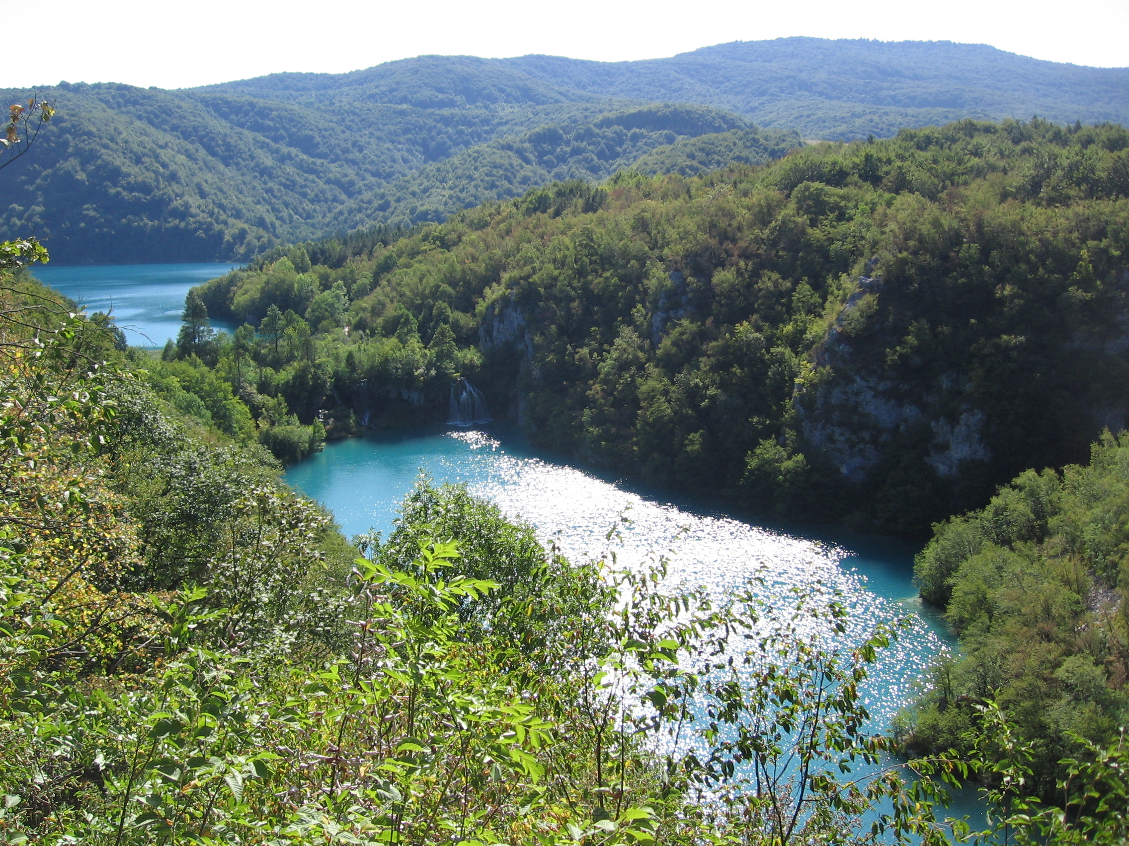 Plitvice Lakes National Park.